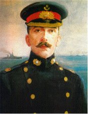 Victoria Cross recipient Francis John William Harvey